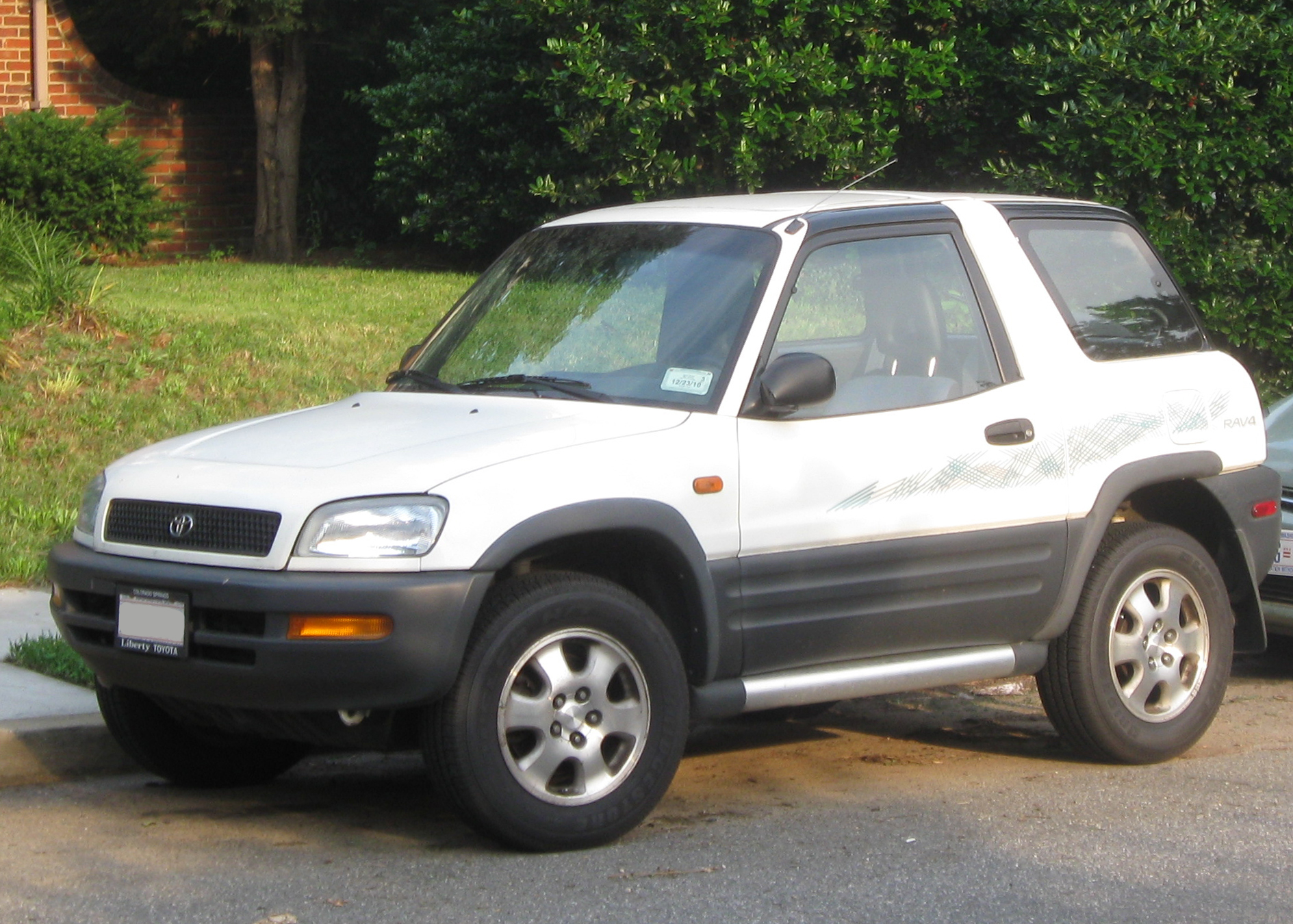 1996-1997 Toyota RAV4 photographed in Washington, D.C., USA.